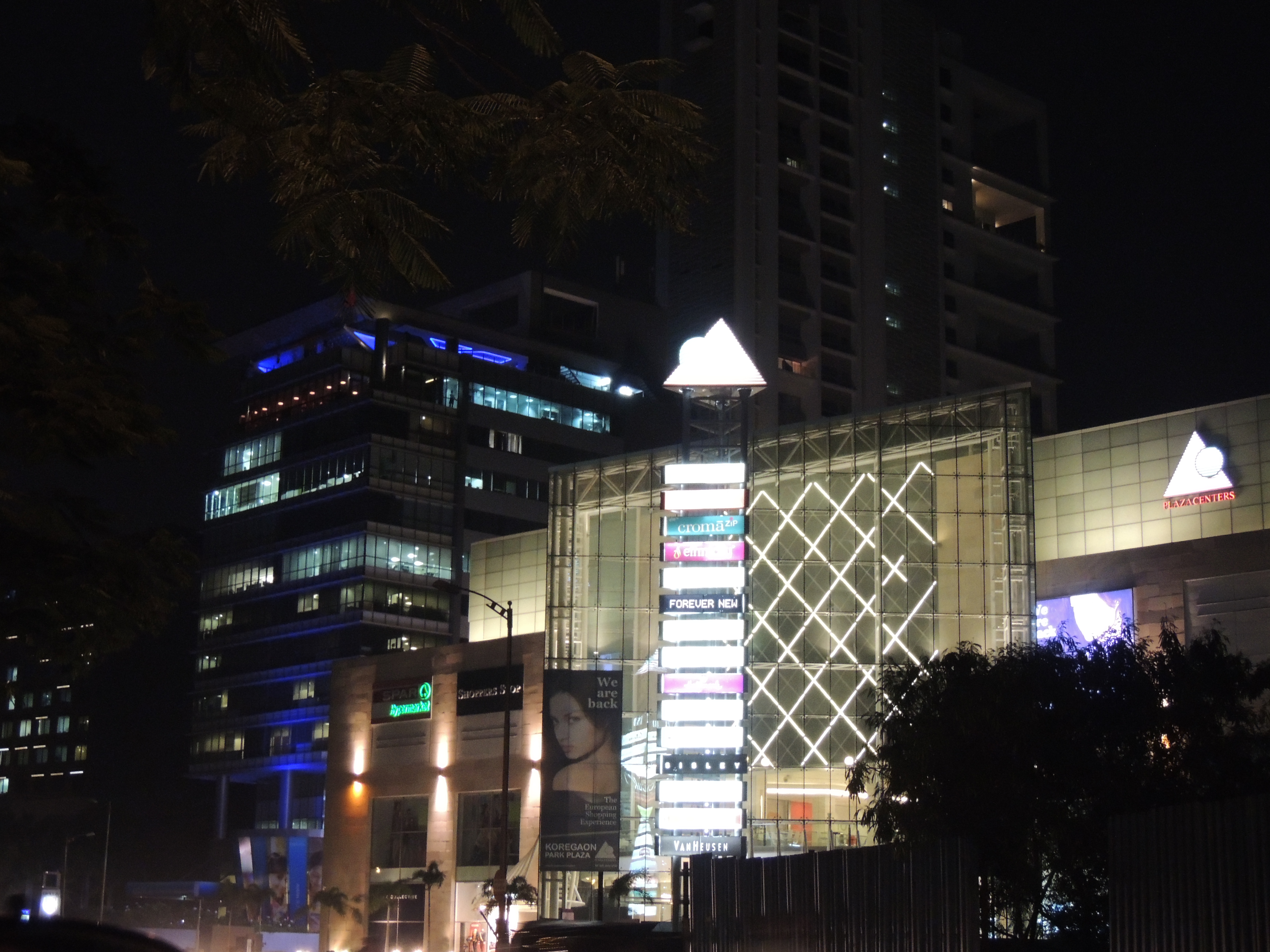 Koregaon park plaza at night in pune,india